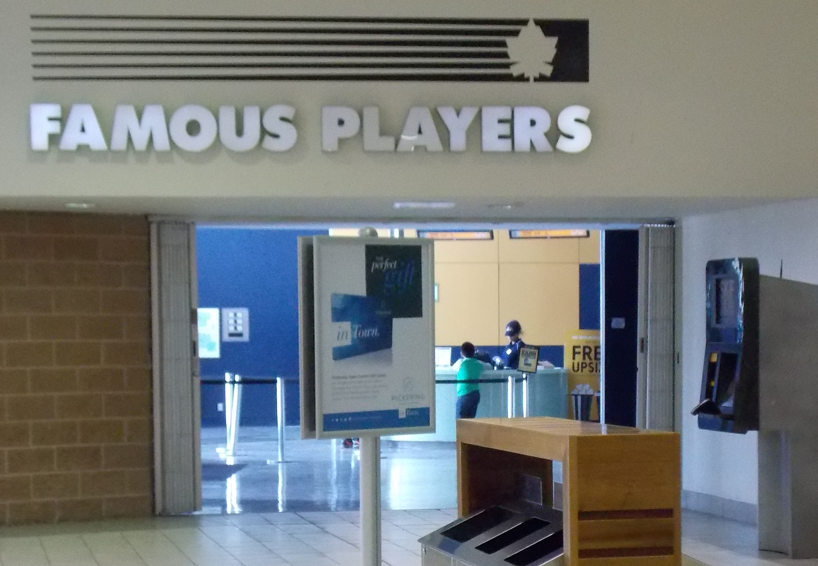 The Famous Players Pickering location's mall entrance.